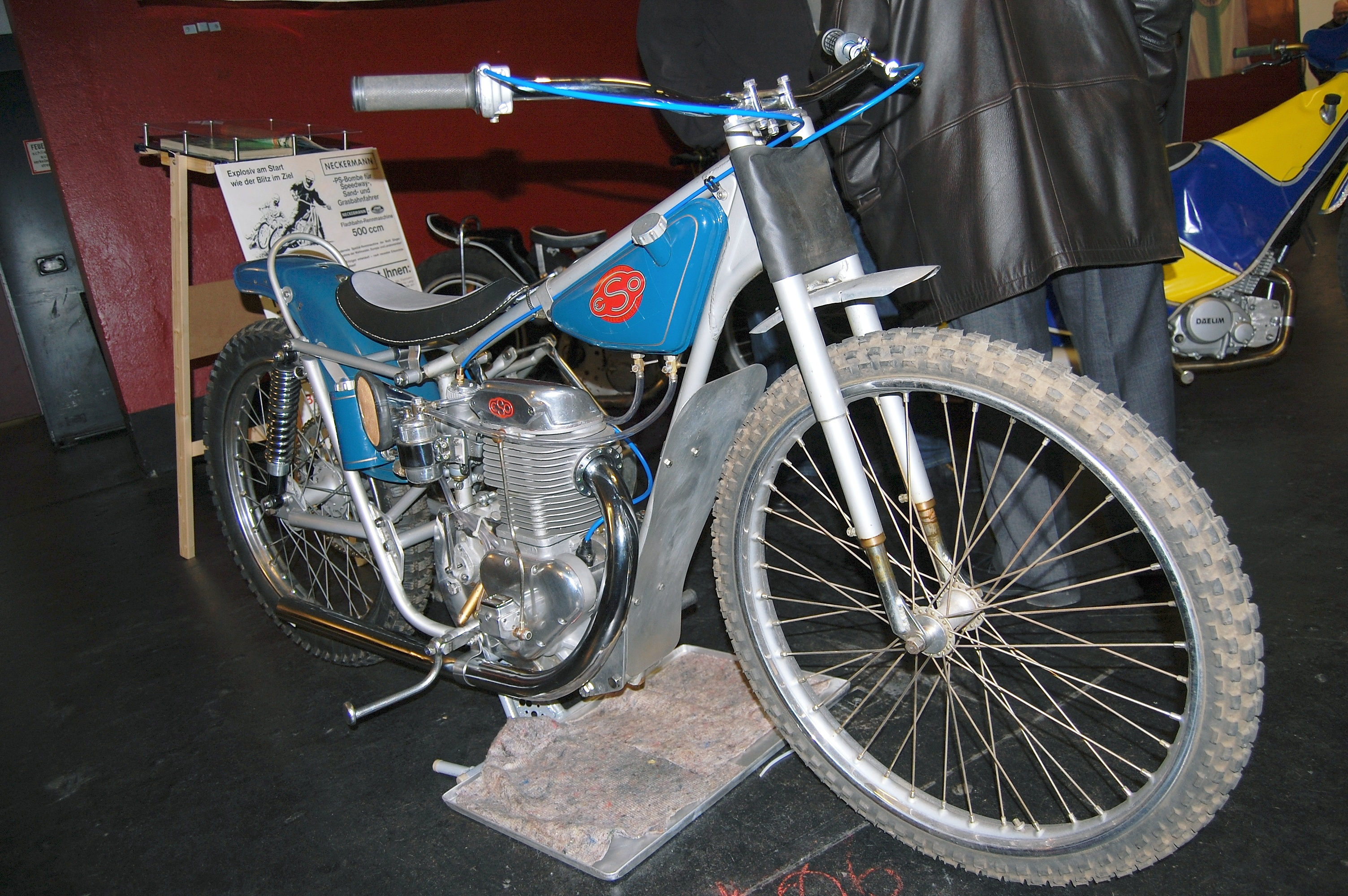 Unidentified Speedway machine